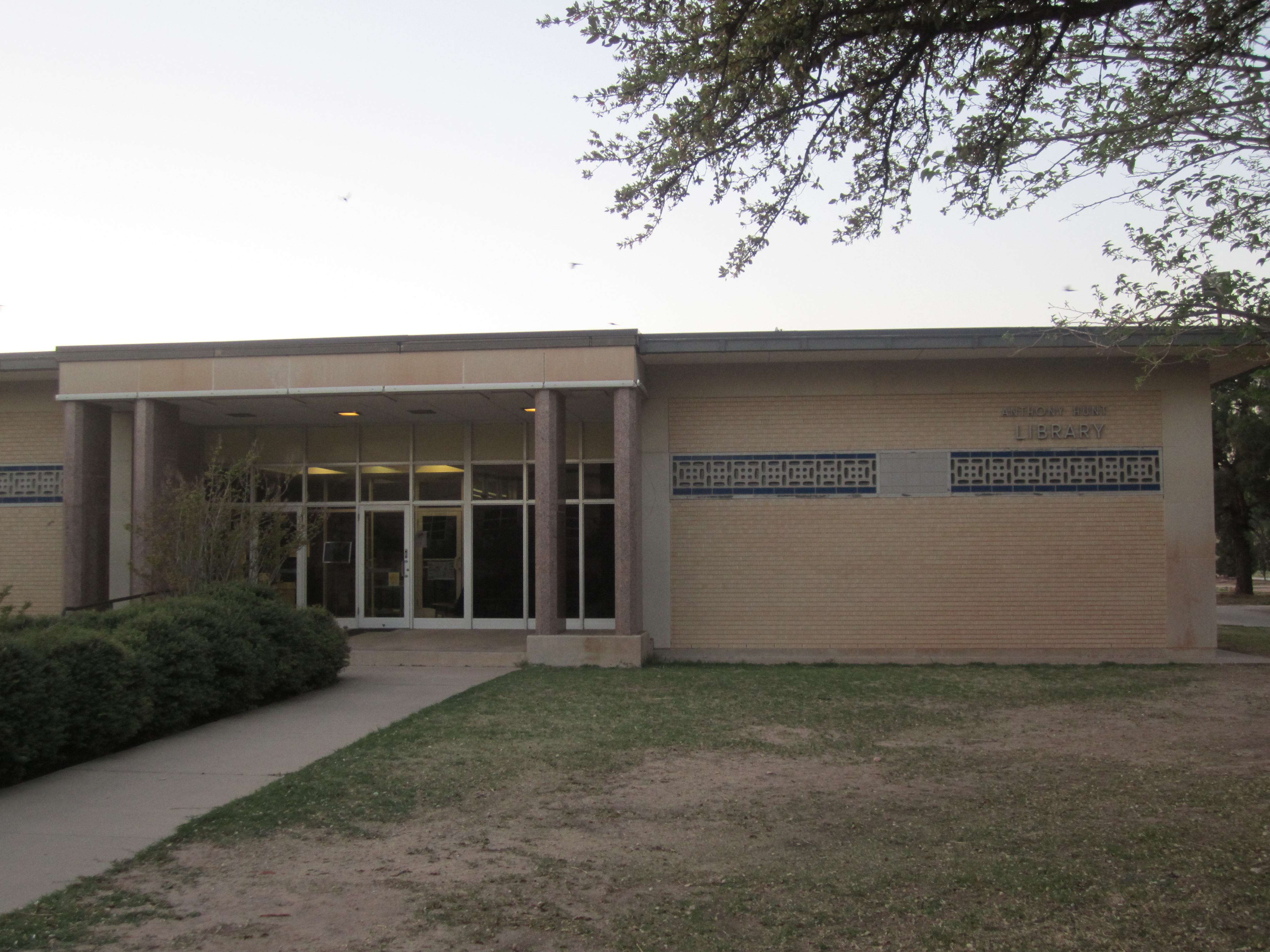 I took photo in Big Spring, TX, with Canon camera.